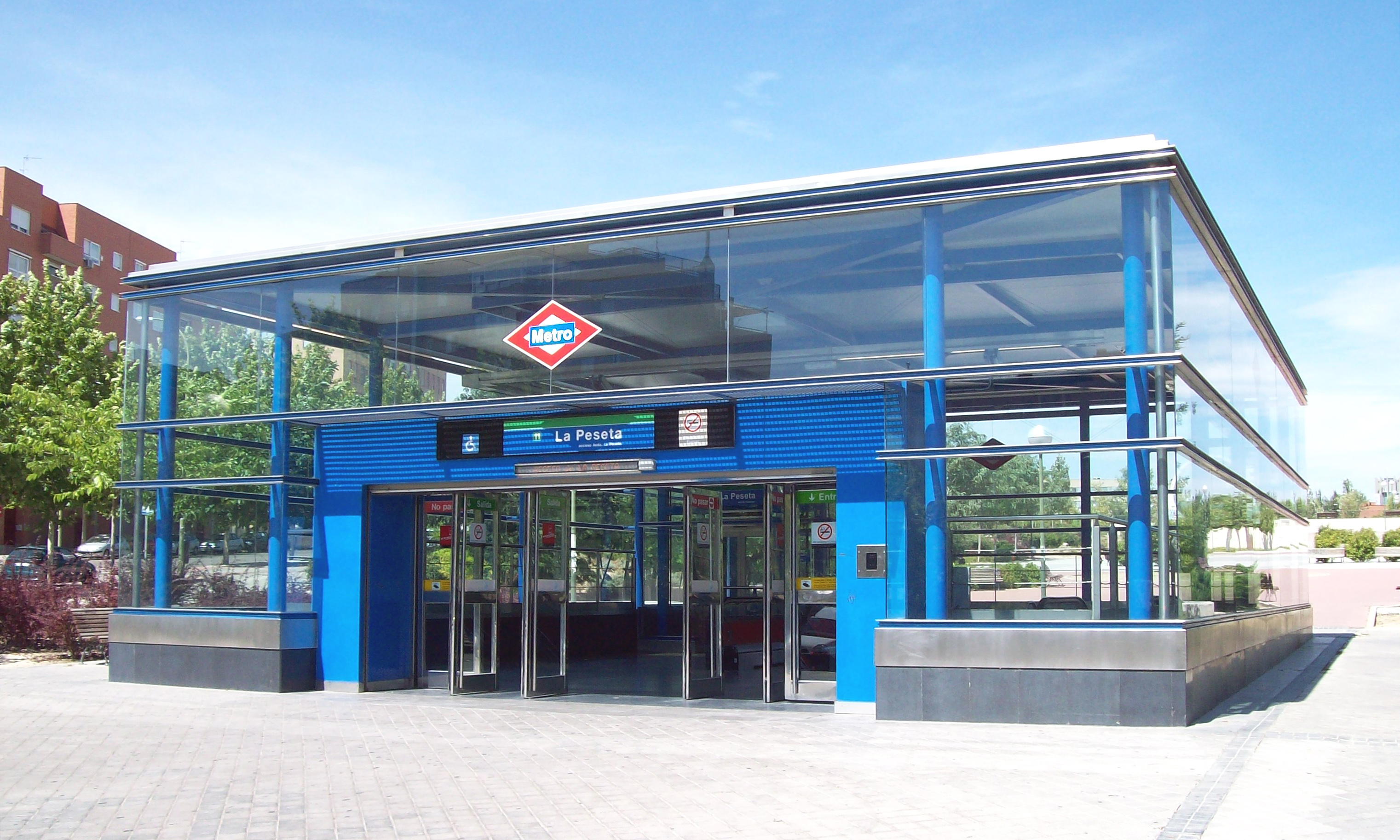 Entrance of La Peseta metro station in Madrid (Spain).